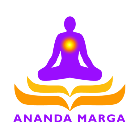 This is not an official logo of Ananda Marga Pracaraka Samgha, but it has been used for that purpose in various parts of the world, originally in Australia. The graphic depicts a lotus greeting the full moon. It is inspired by a reference in P. R. Sarkar's short story, "The Golden Lotus of the Blue Sea".